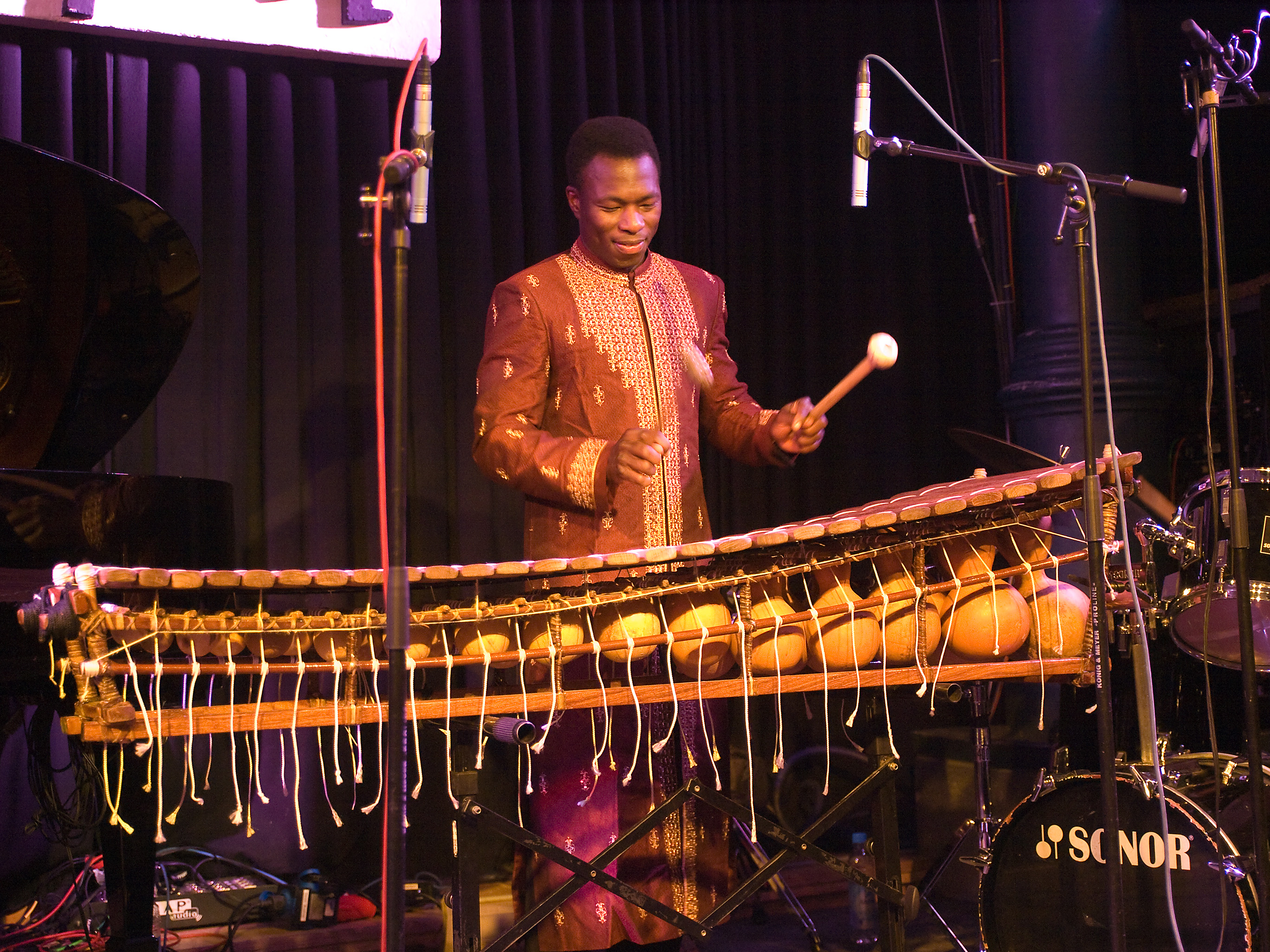 Balafon played by Aly Keita , Picture taken in Jazz Club Unterfahrt Munich/Bavaria